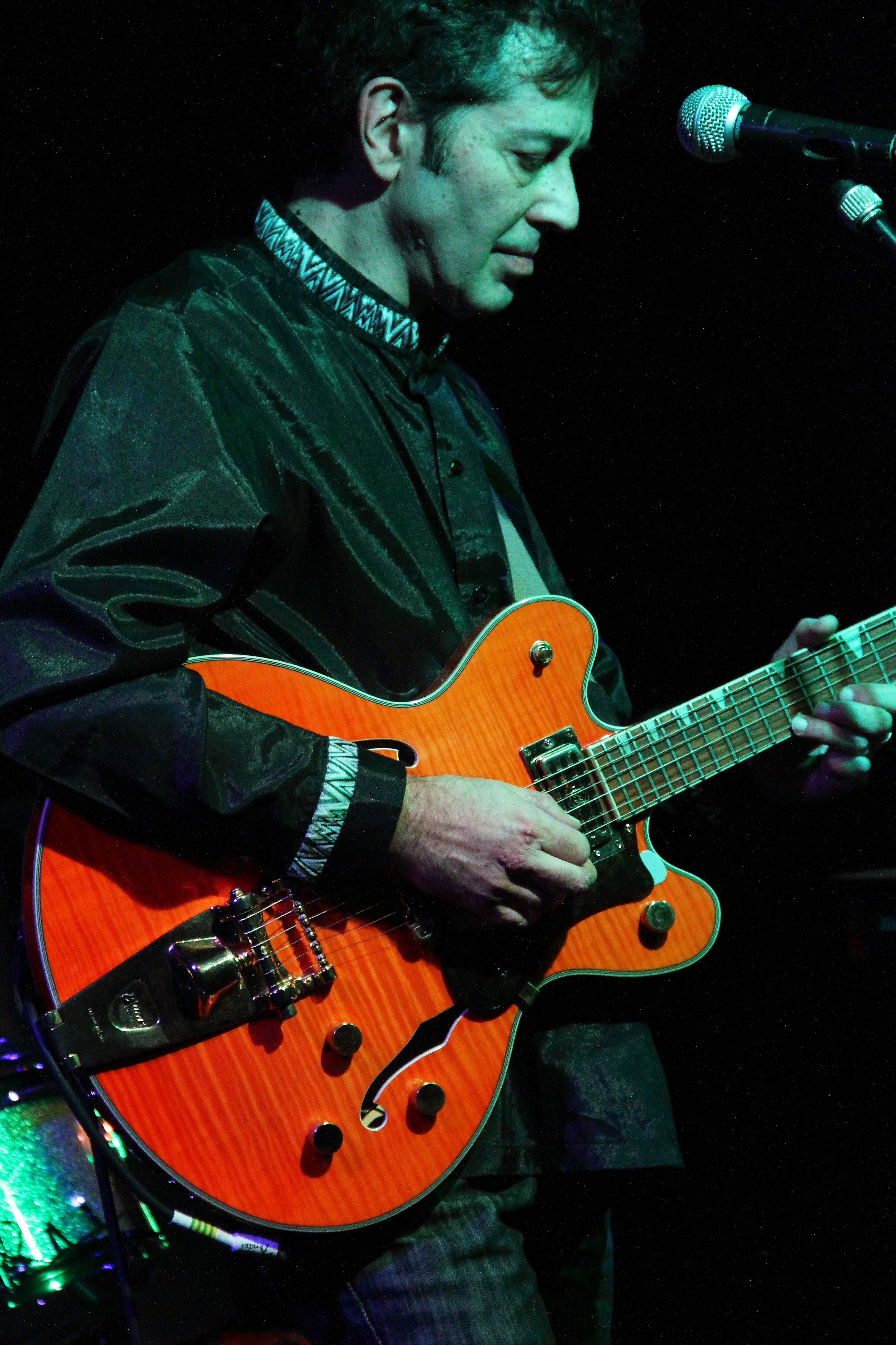 Bid with The Monochrome Set at Club W71, 2016.